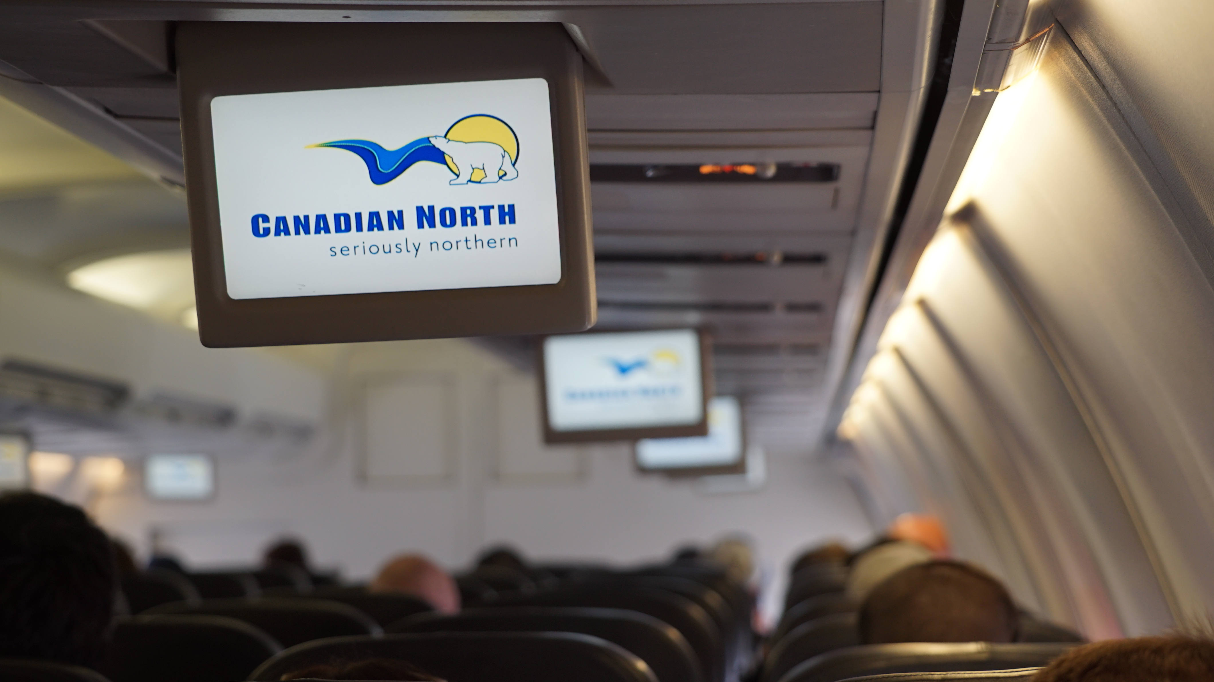 IFE screens inside a Canadian North 737-300.